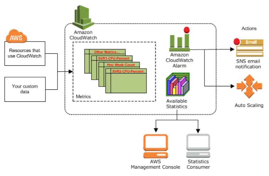 CloudWatch schema